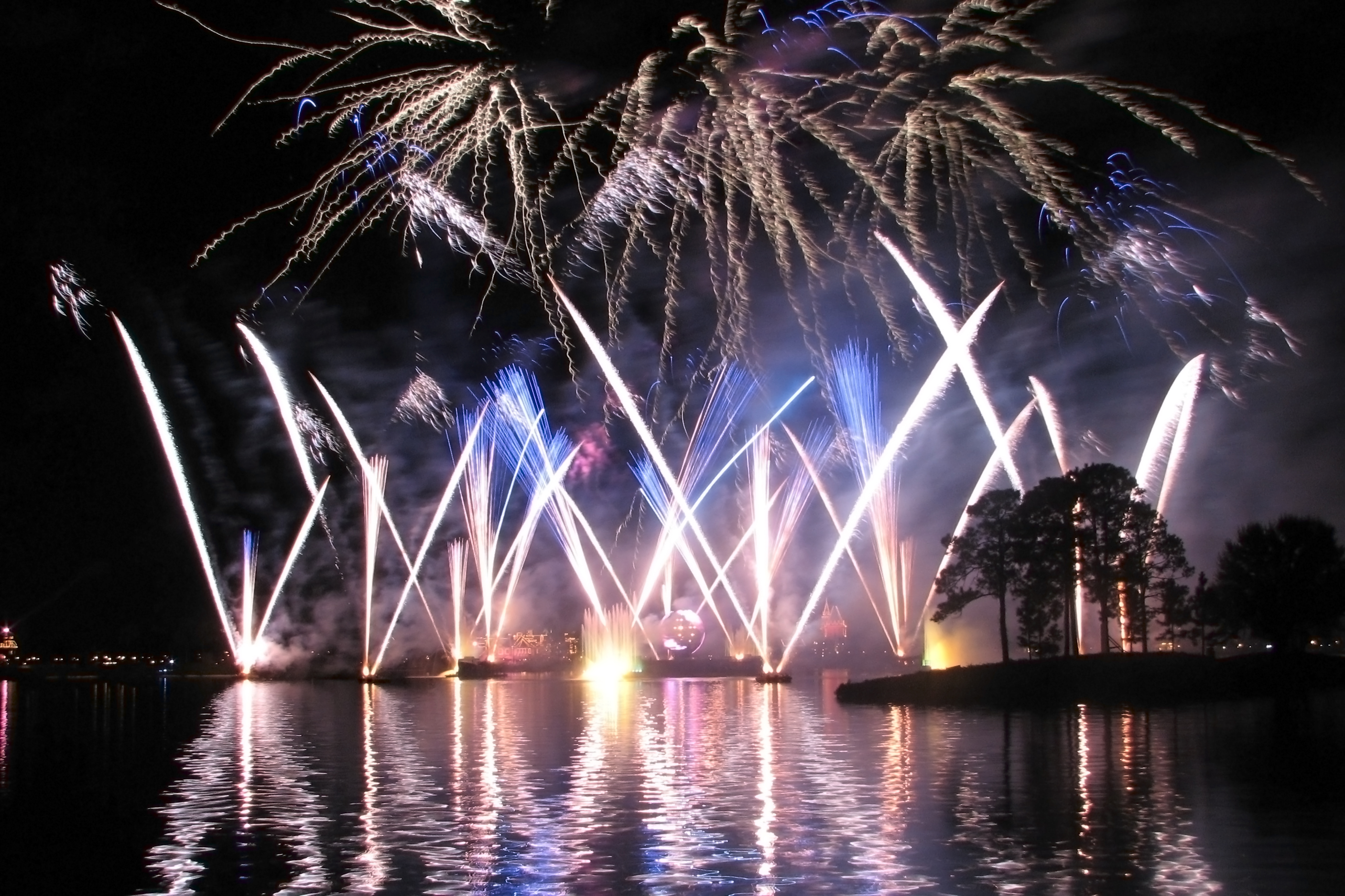 The IllumiNations: Reflections of Earth fireworks show at Epcot at Walt Disney World.